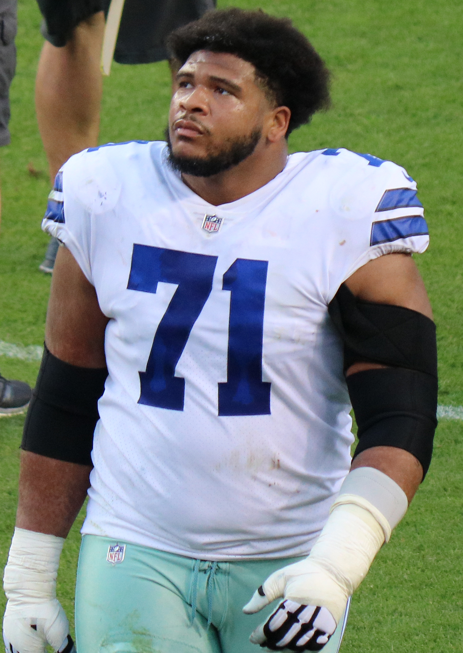 La'el Collins, a player on the National Football League.